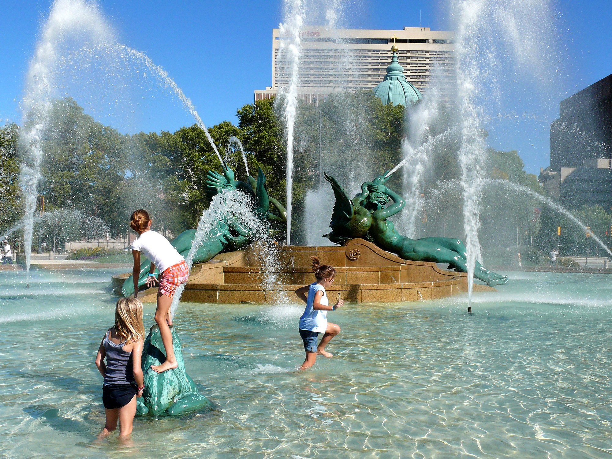 Children playing in Swann Memorial Fountain, which is located in the center of Logan Square, Philadelphia, PA, USA.Photo taken with a Panasonic Lumix DMC-FZ50.